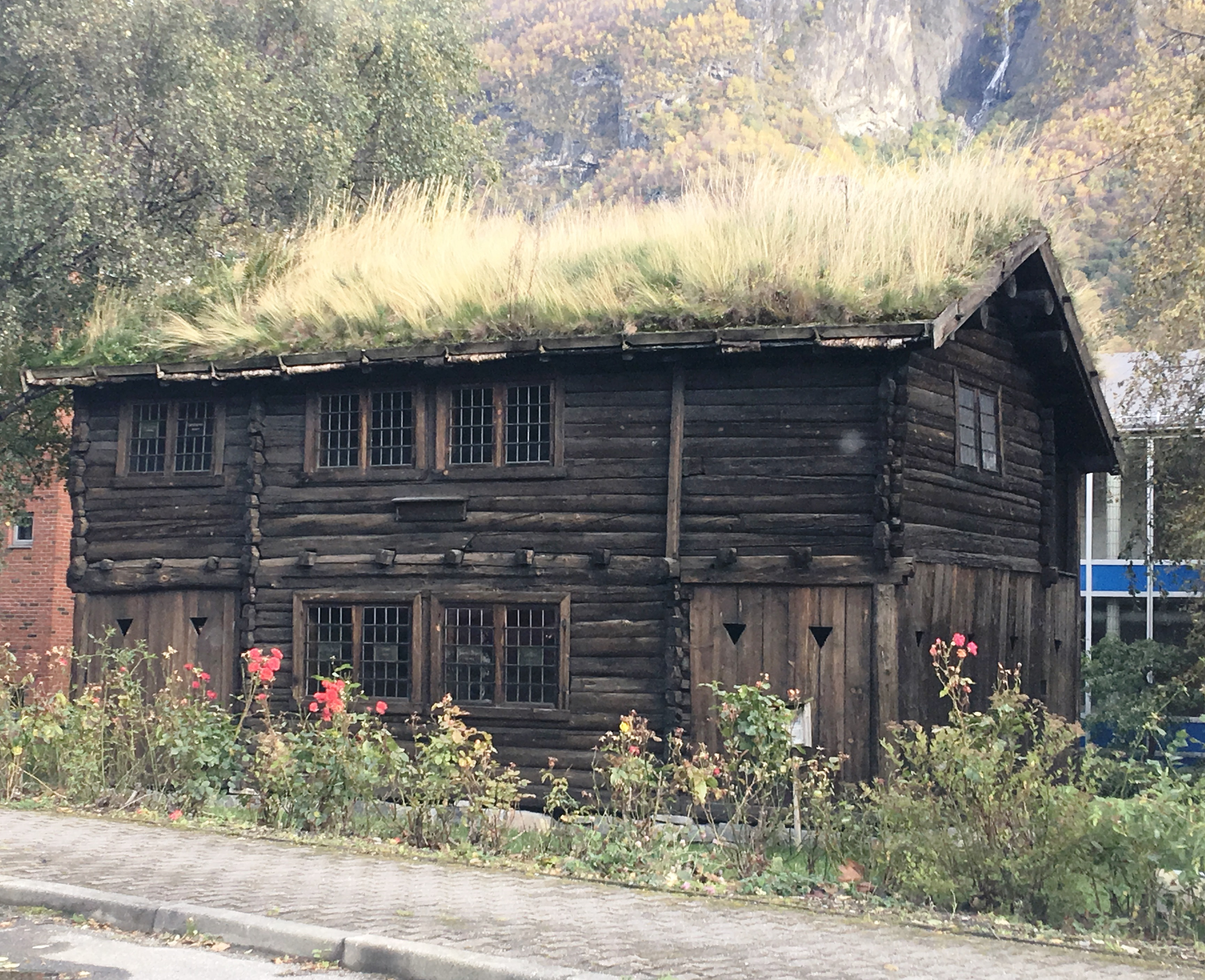 Aardal Copper Hut (Årdal Kopperstue) from aound 1720, an early copper processing hut at Årdalstangen, western Norway.